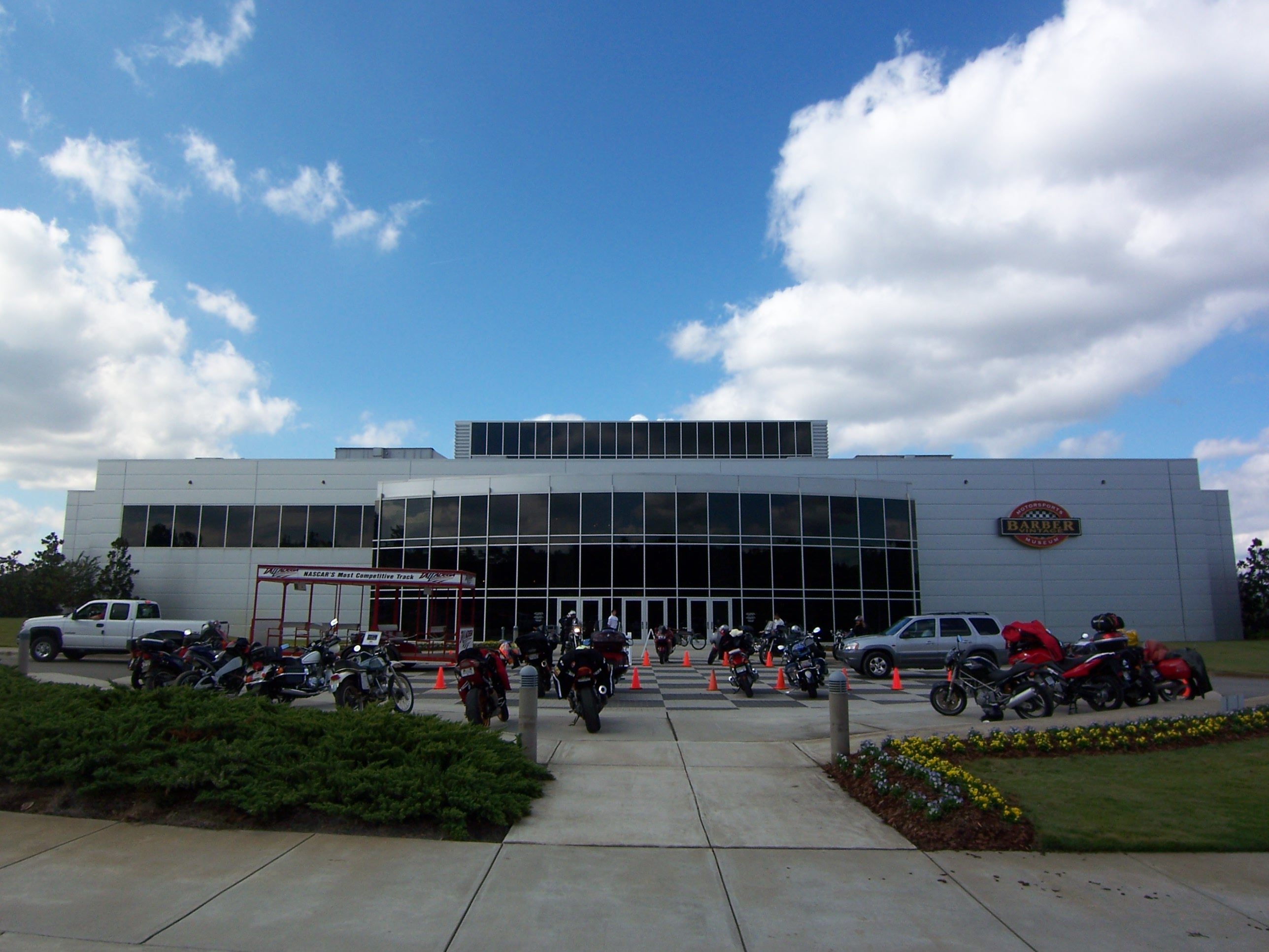 Barber Motorcycle Museum - Oct 22 2006 (693)